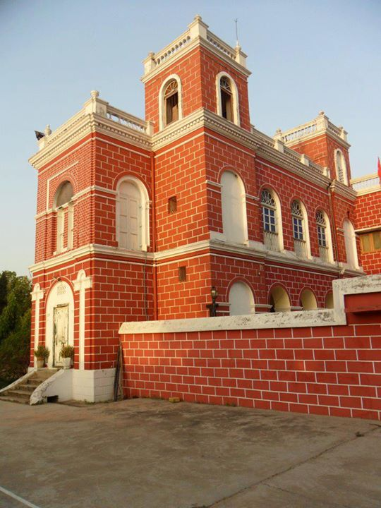 This image explains the wiki-content.